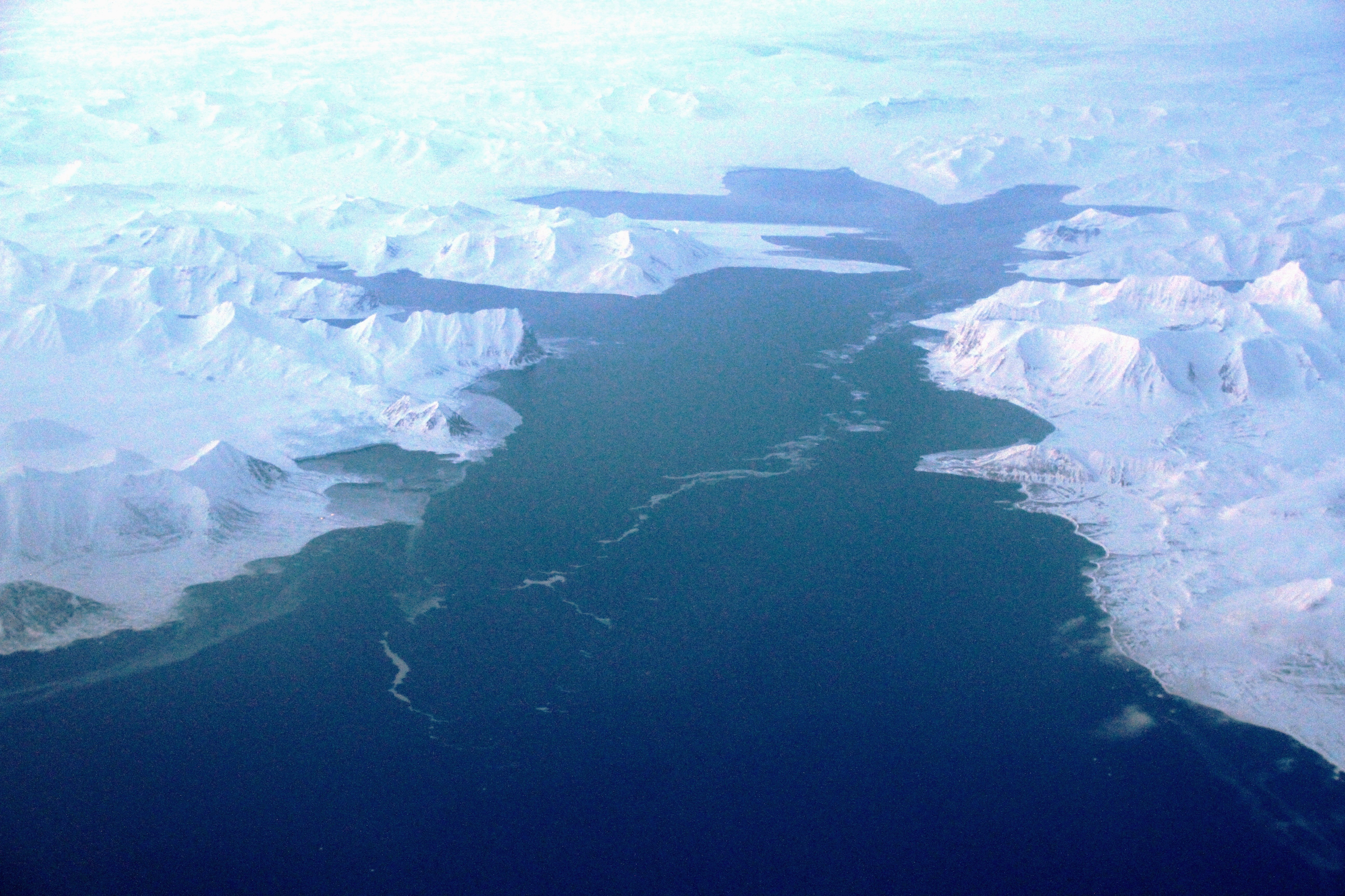 Southernmost part of Spitsbergen, Norway